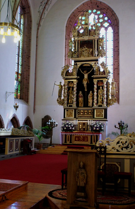 The altar of StMary's church in Gryfice (Poland)